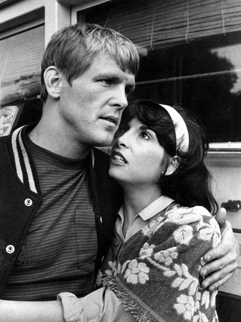 Photo of Nick Nolte as Tom Jordache and Talia Shire as Teresa Santoro from the television miniseries Rich Man, Poor Man.